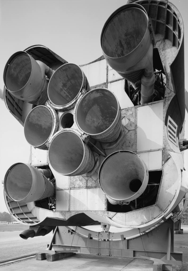 ENGINE CLUSTER OF 1ST STAGE OF A SATURN I ROCKET LOCATED ON NORTH SIDE OF STATIC TEST STAND, NASA Marshall Space Flight Center, Redstone Arsenal, Huntsville, Alabama. HAER, ALA,45-HUVI.V,7D-28.